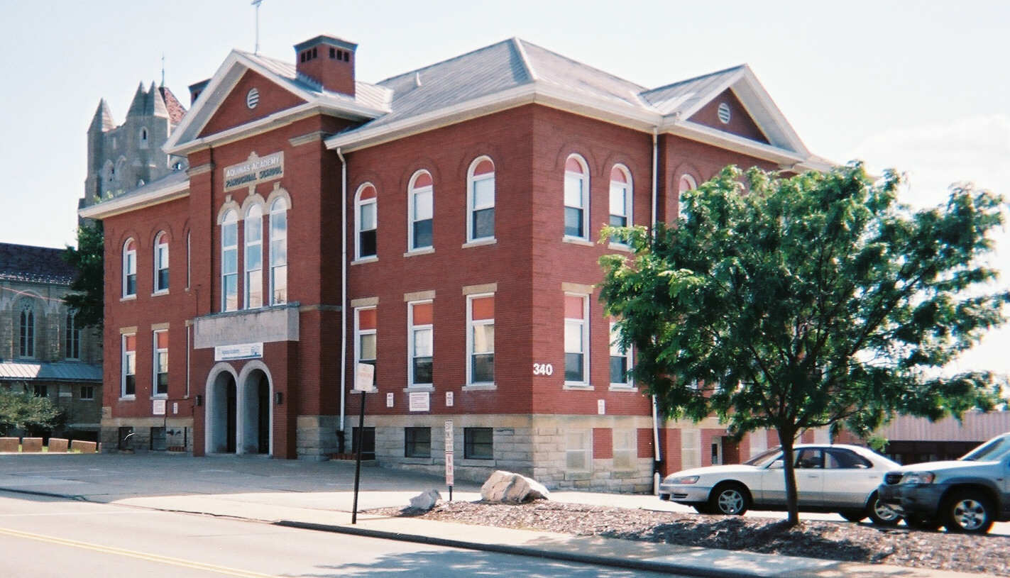 Aquinas Academy (340 North Main Street, Greensburg, Pennsylvania). This Roman Catholic elementary school was built in 1904. Originally Saint Benedict School, later known as Blessed Sacrament School.